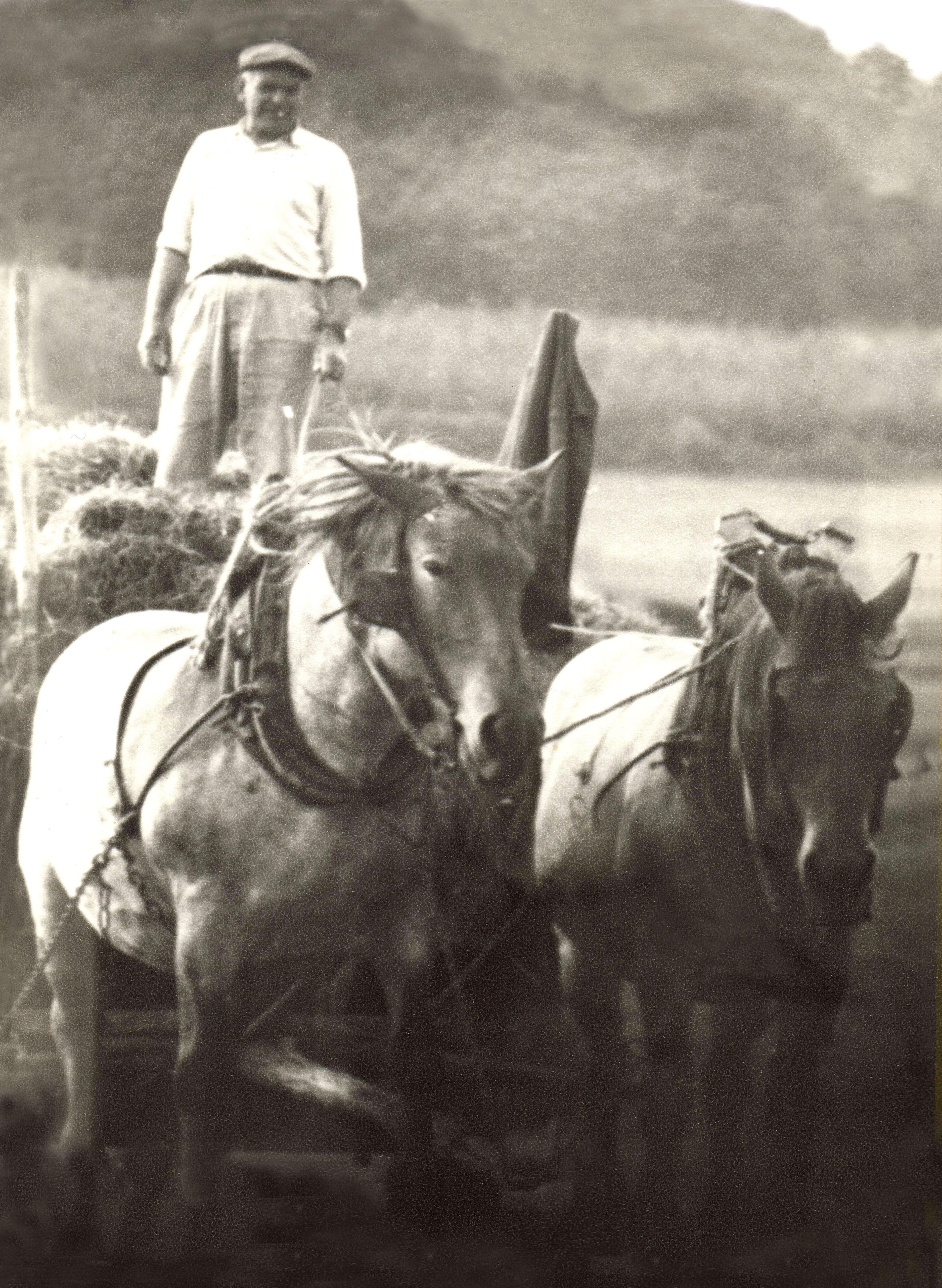 Jean and Ardennes horses in the haymaking of July 1972 at Forrières (Belgium).